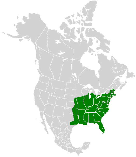 A range map showing the distribution of the Spicebush Swallowtail (Papilio troilus)